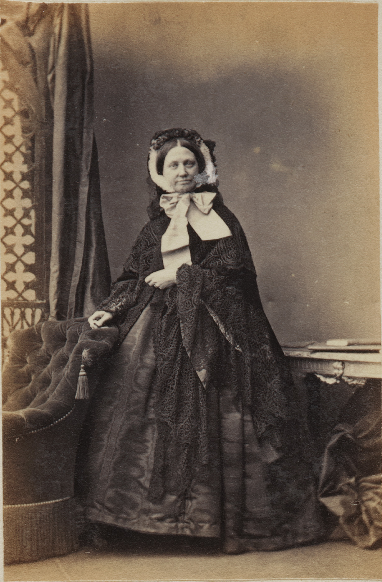 Depicted person: Emma Caroline Smith-Stanley, Countess of Derby – British countess